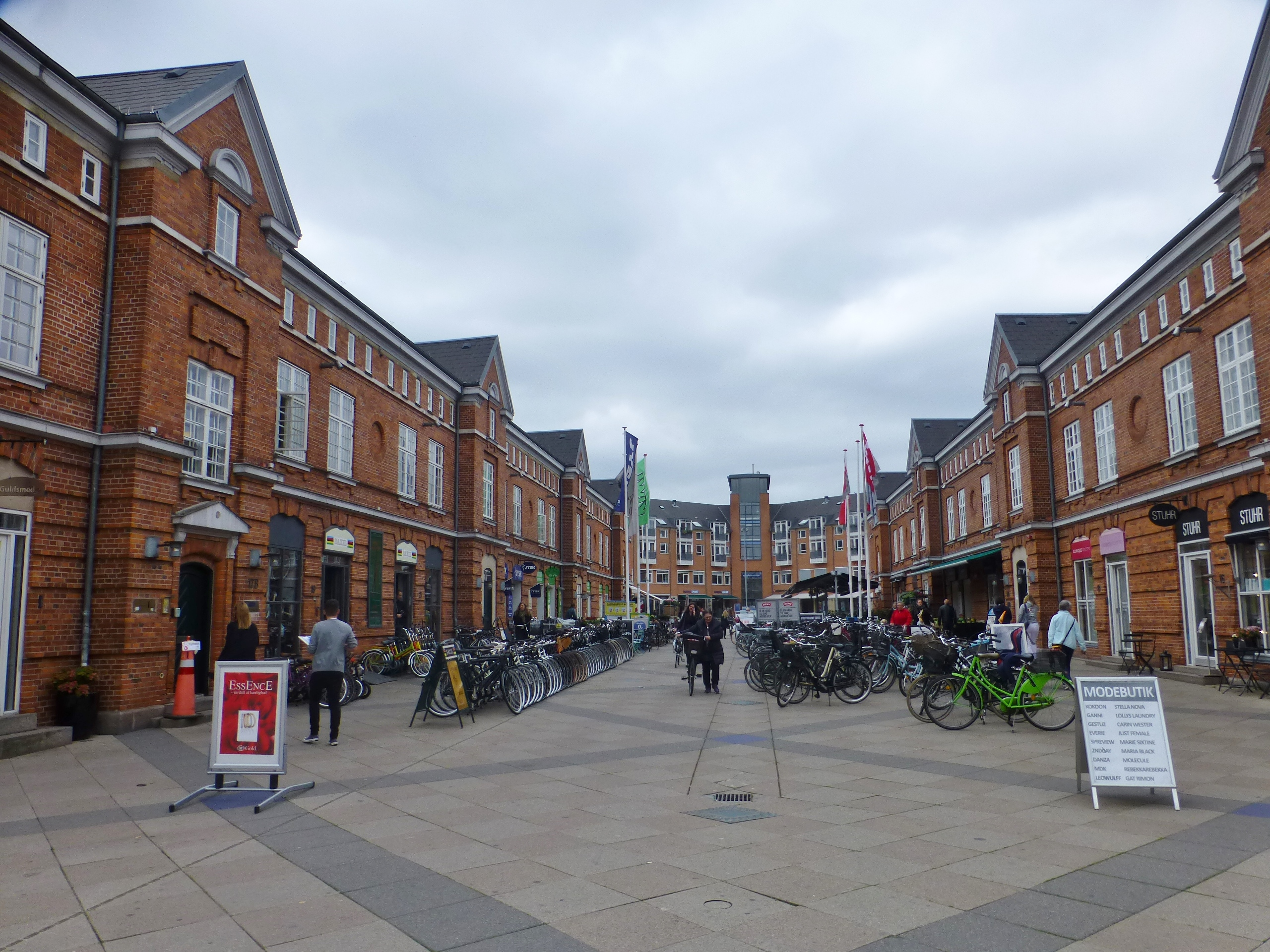 The square Østerfælled Torv in Østerbro in Copenhagen.